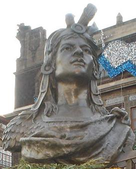 Statue of Cuauhtemoc in el Zócalo, Mexico City.